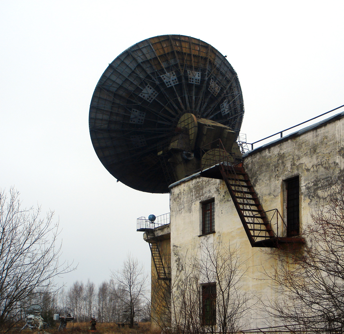 Radiotelescope RT-15-2 of Zimenki Radio Astronomy Station, Kstovsky District of Nizhny Novogord Region, Russia.